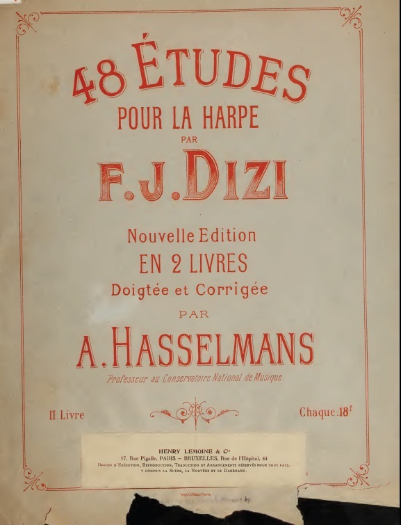 The front page of the 48 etudes of Dizi with correction and indication of finger positions by Hasselmans